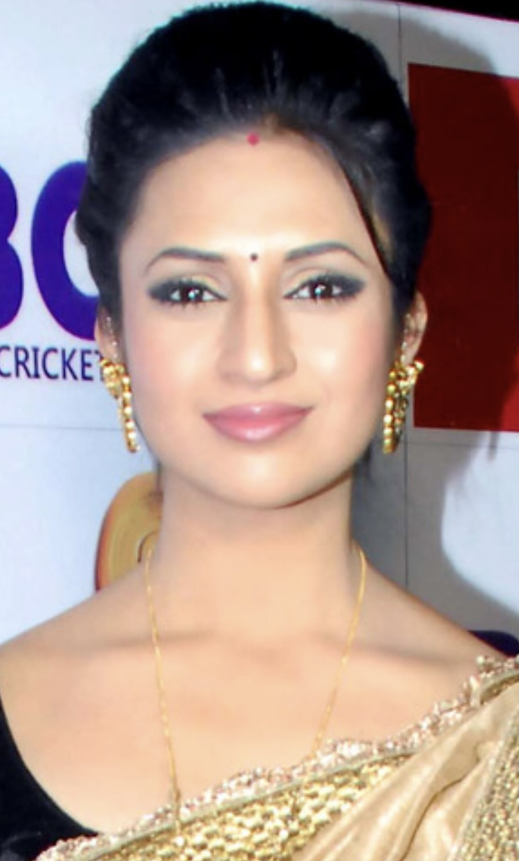 Tripathi at the launch of Kolkatta Babu Moshai's dress and anthem for BCL